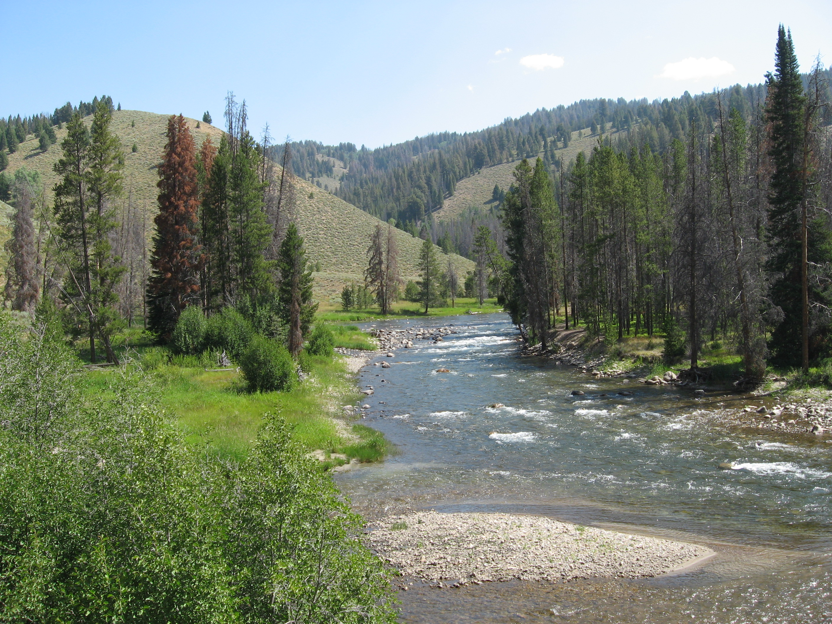 The Salmon River is the largest tributary of the Snake River. Salmon River in Sawtooth National Recreation Area.